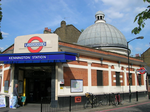 Kennington Underground Station looking down Braganza Street, London SE17, built by T. P. Figgis